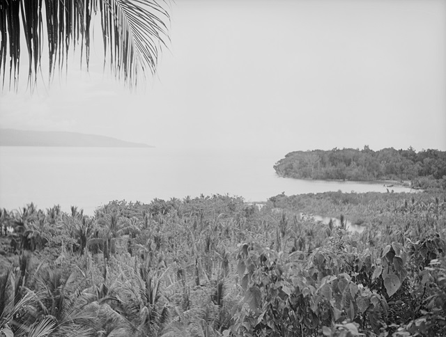 View of Henry Reid Bay from Kamandran